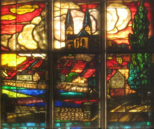 Hall of the train station in Quedlinburg, window shows the city of Quedlinburg with the St. Servatii church in background